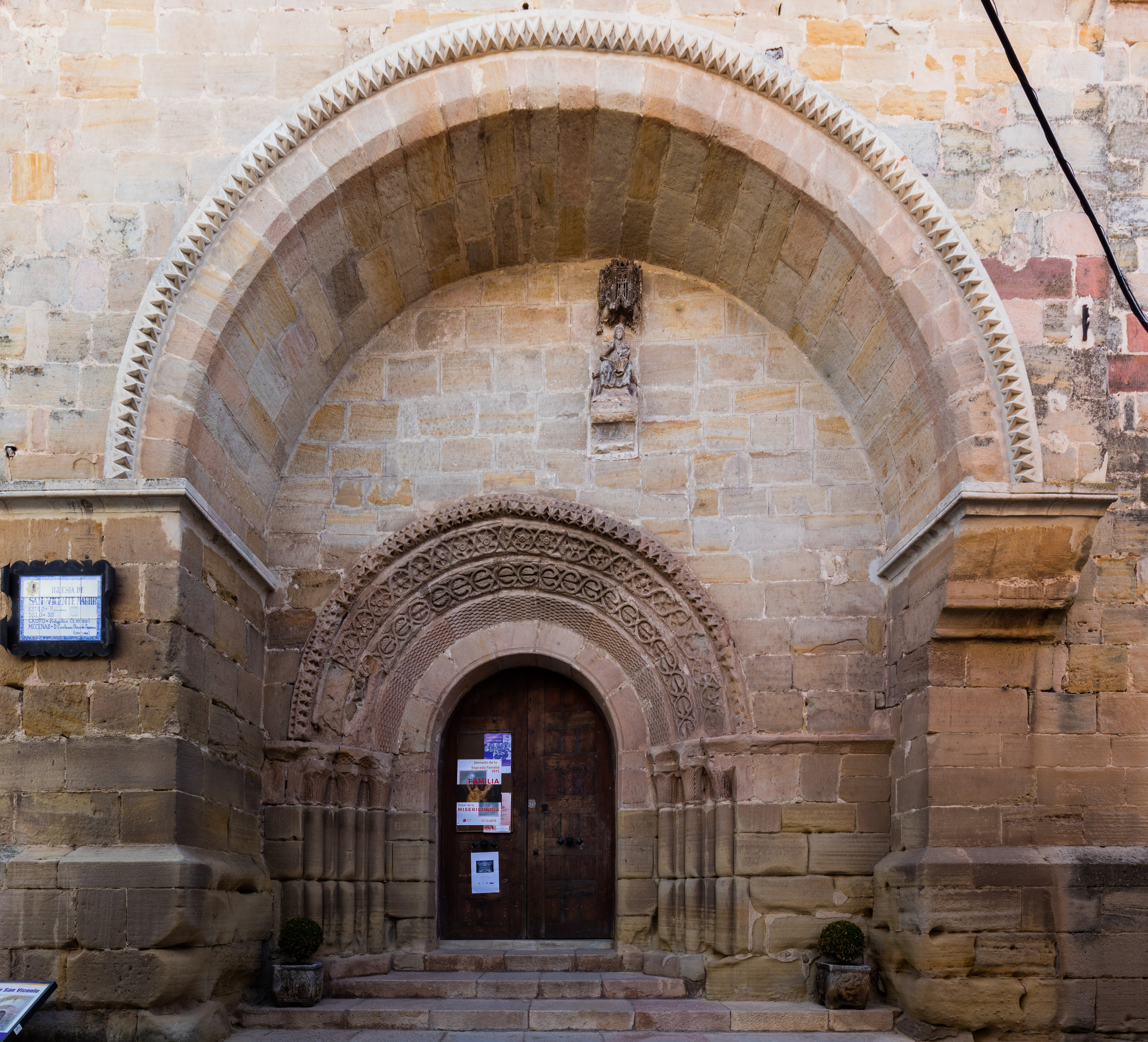 Church of St Vicente Martyr, Sigüenza, Spain